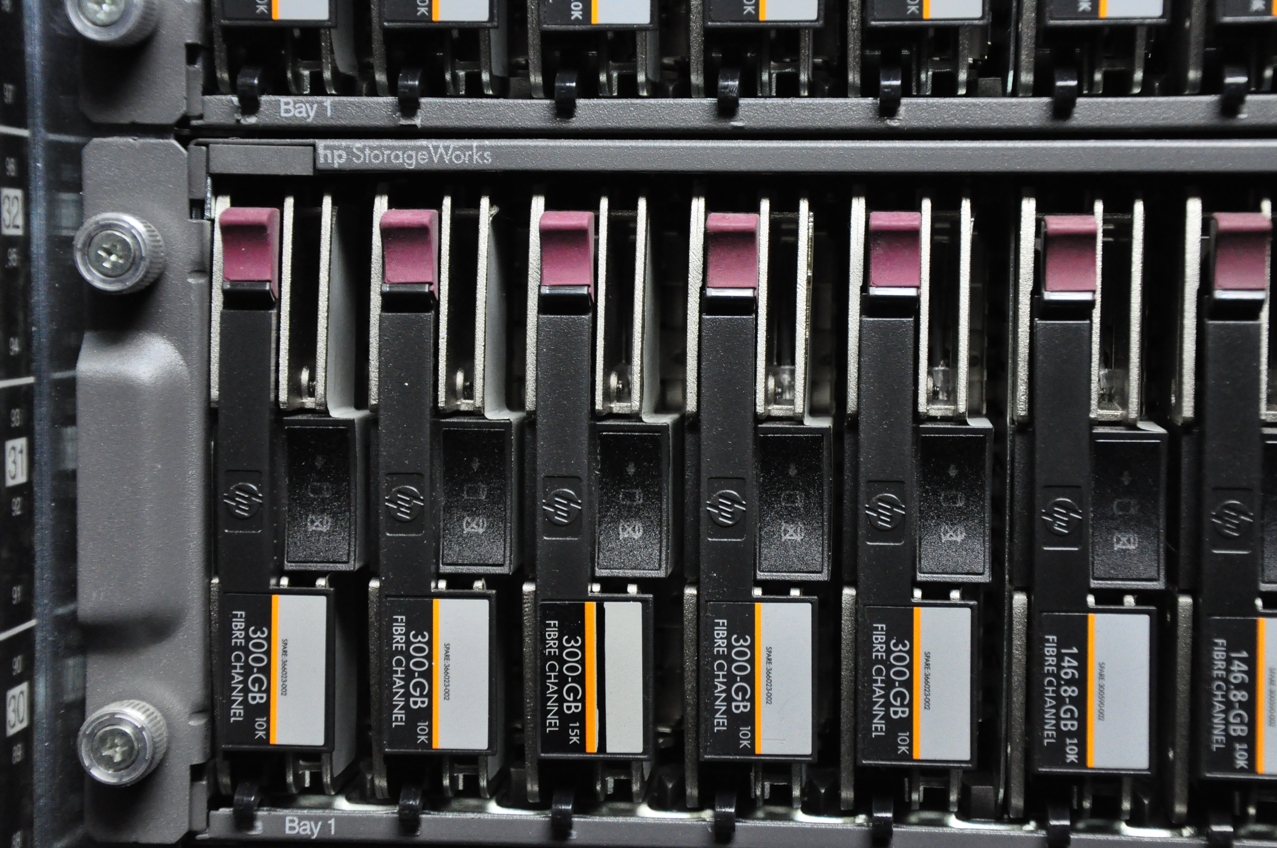 Part of disk cabinet from the first Beowulf cluster at Barcelona Supercomputing Center